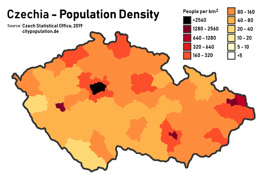 A map that represents population density in the Czech Republic, as of a 2019 estimate by the Czech Statistical Office